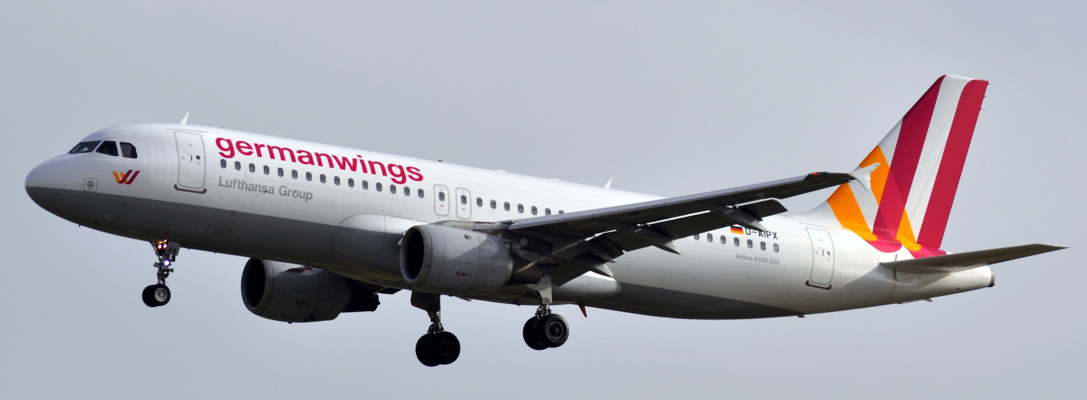 Airbus A320 (D-AIPX) of Germanwings on final approach at Barcelona Airport. This aircraft crashed on 24 March 2015 in the French Alps as Germanwings Flight 9525